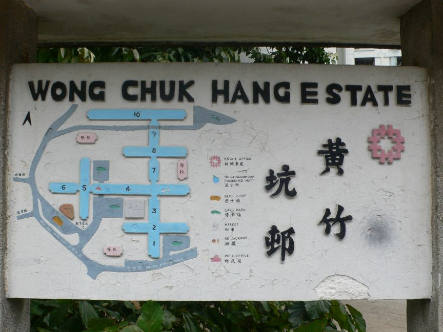 The Map Sign of Wong Chuk Hang Estate, Hong Kong